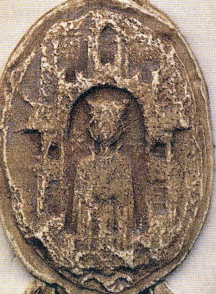 Princess Ingiburga of Sweden (1210s) Ingeborg Eriksdotter - on her royal seal